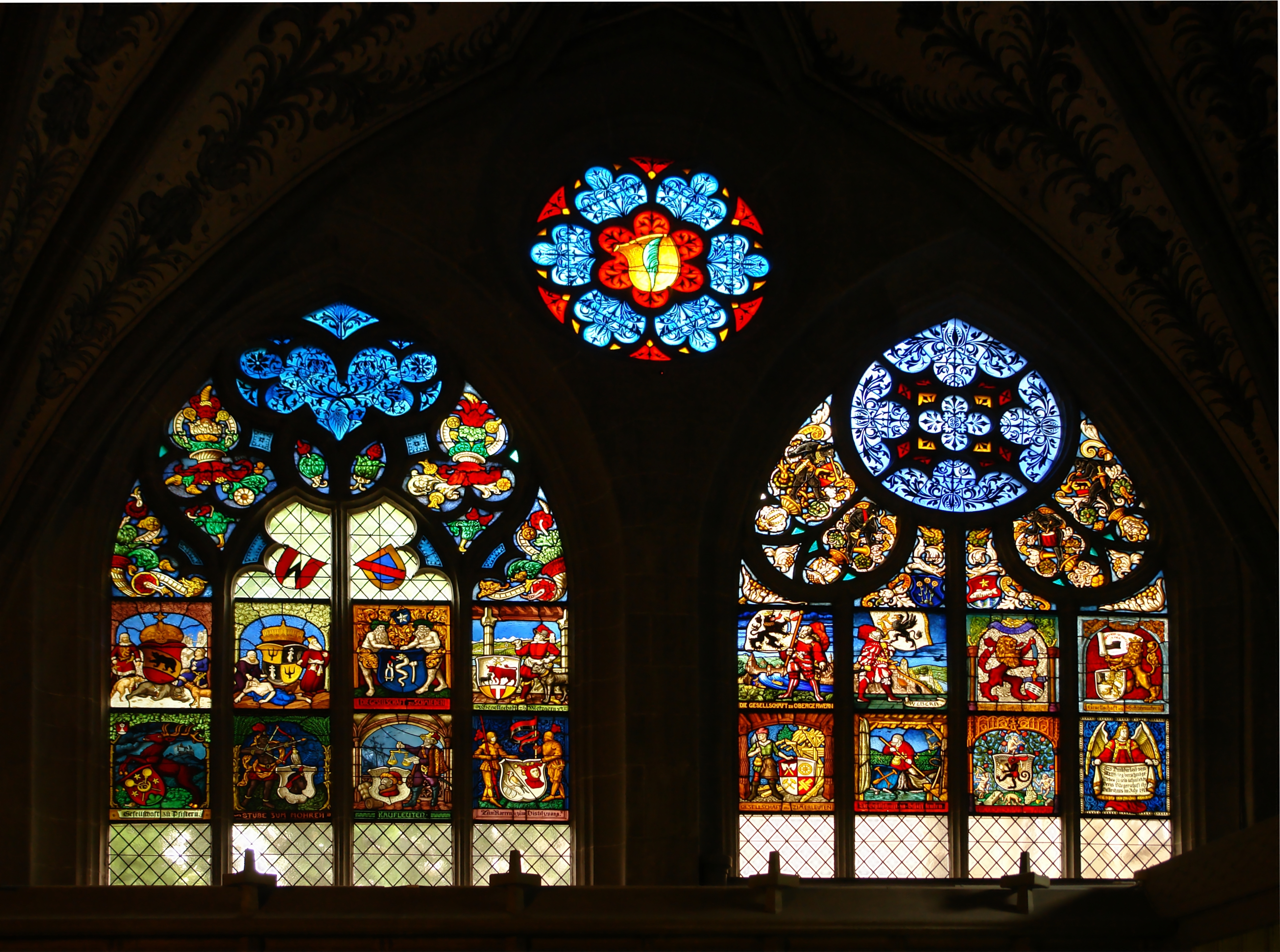 Stained glass windows of Berne cathedral, Switzerland.